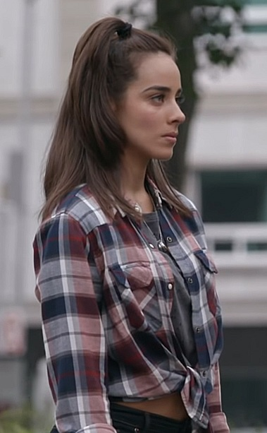 Isabela León character from the Univision's series La bella y las bestias.